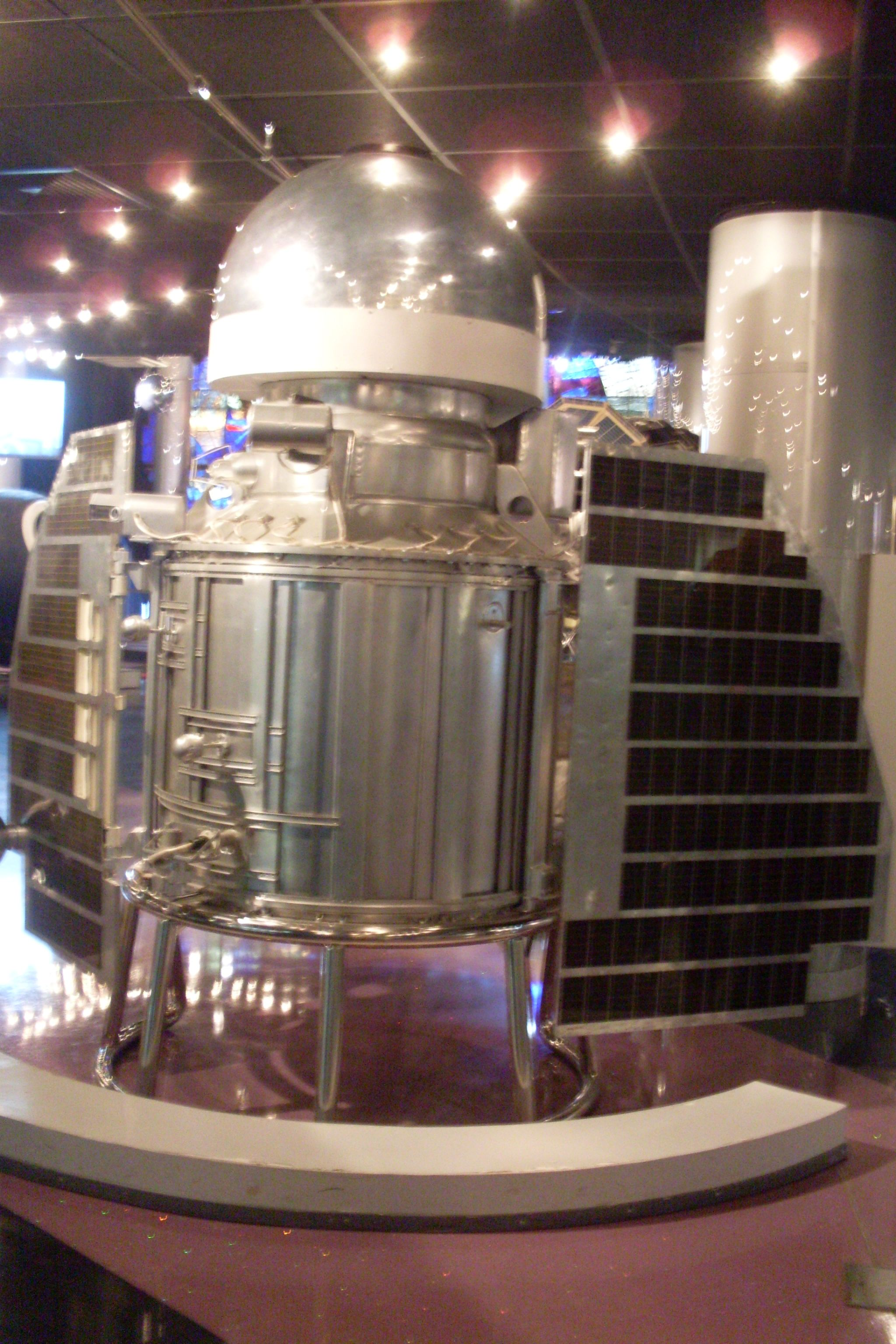 Mockup (1:1) of the spacecraft Venera 1 at Memorial Museum of Astronautics (Moscow).